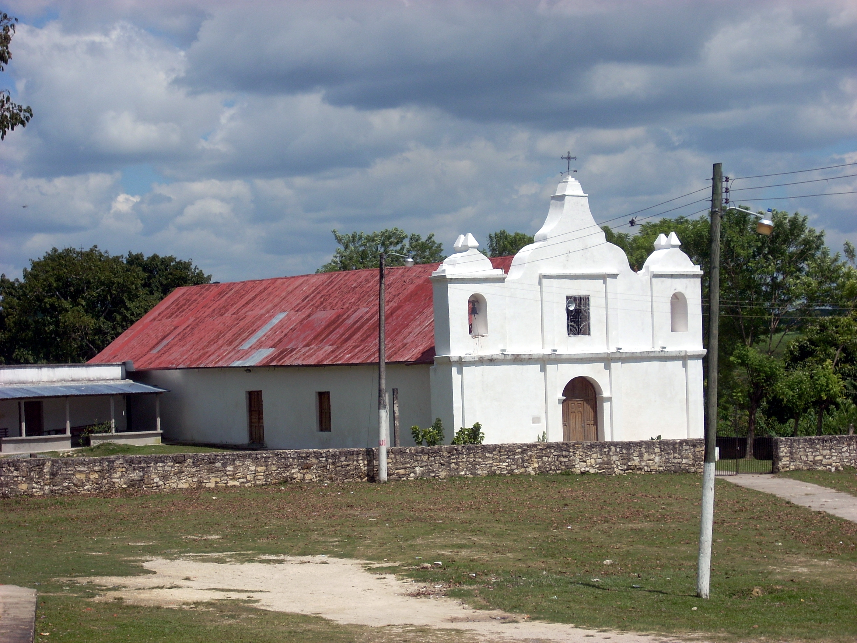 Colonial Period Catholic church in Dolores, Peten, Guatemala. Built around 1708.